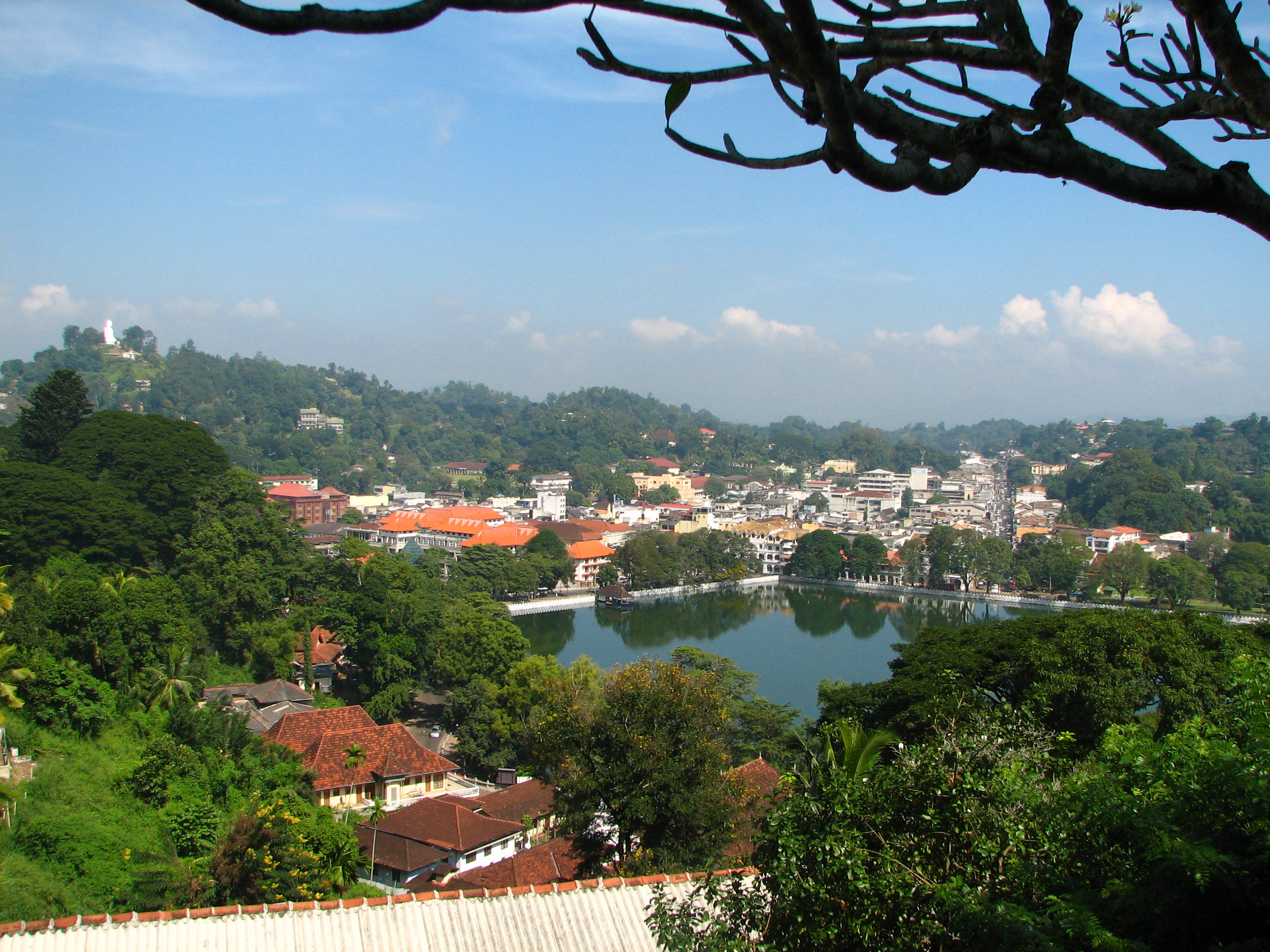 The lush and hilly city of Kandy centered around a man-made lake.